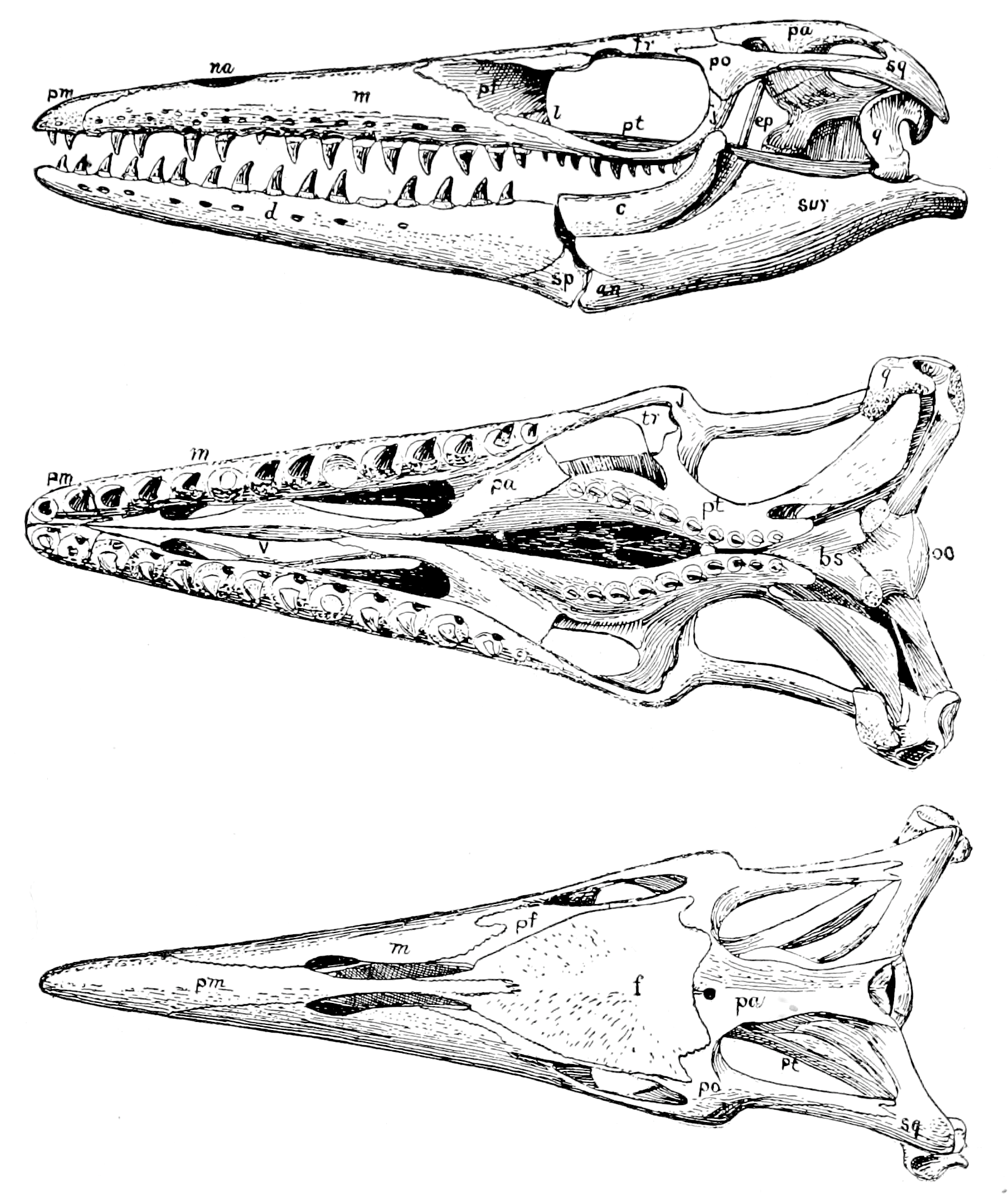 Illustration of skulls of Clidastes, Platecarpus, and Tylosaurus from The Osteology of the Reptiles (1925)